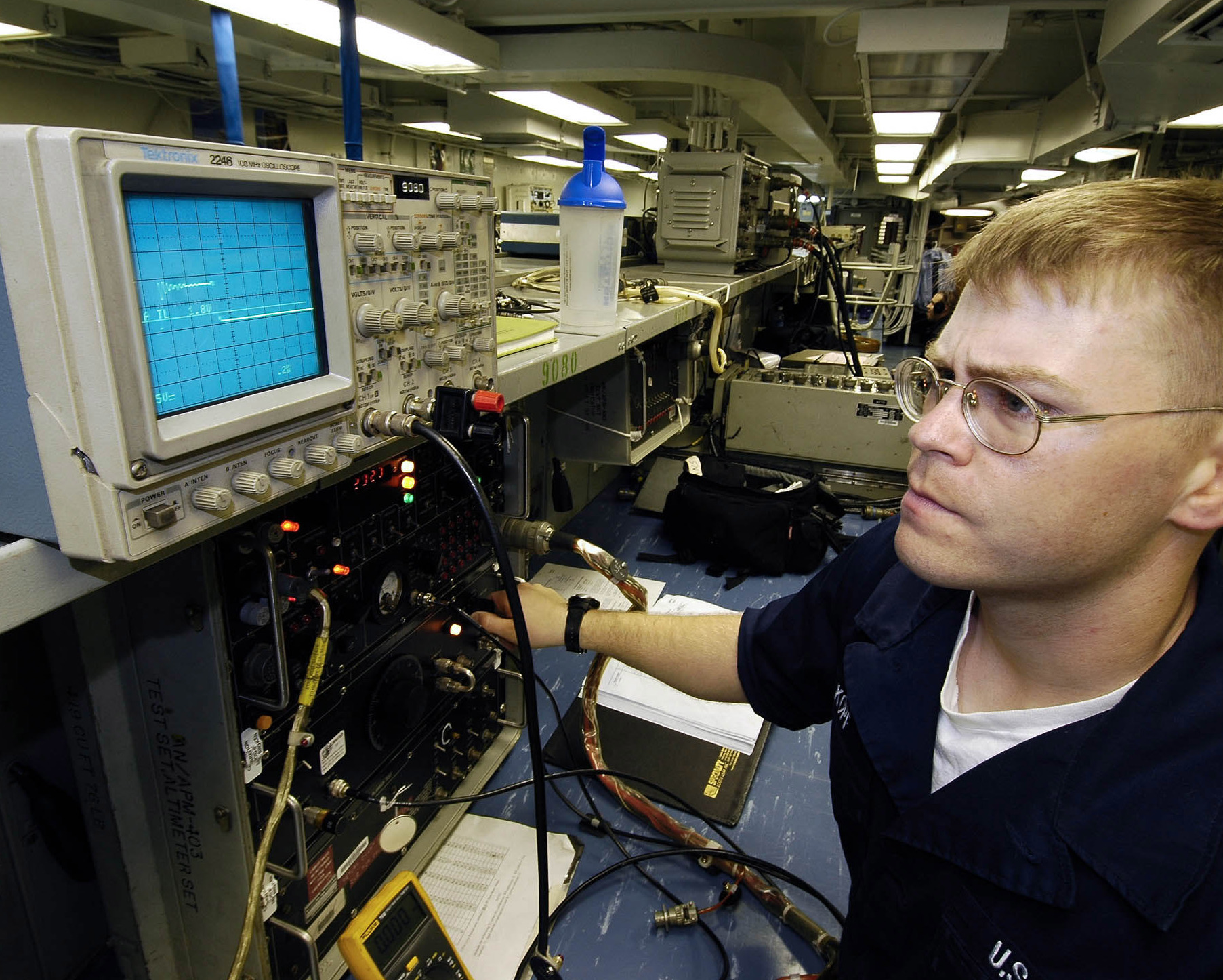 Pacific Ocean (May 4, 2006) - Aviation Electronics Technician Airman Gary Kopf uses an oscilloscope to verify signals on aircraft avionics equipment aboard the Nimitz-class aircraft carrier USS Abraham Lincoln (CVN 72). Lincoln and embarked Carrier Air Wing Two (CVW-2) are currently underway in the Western Pacific operating area. U.S. Navy photo by Photographer's Mate Airman James R. Evans (RELEASED)